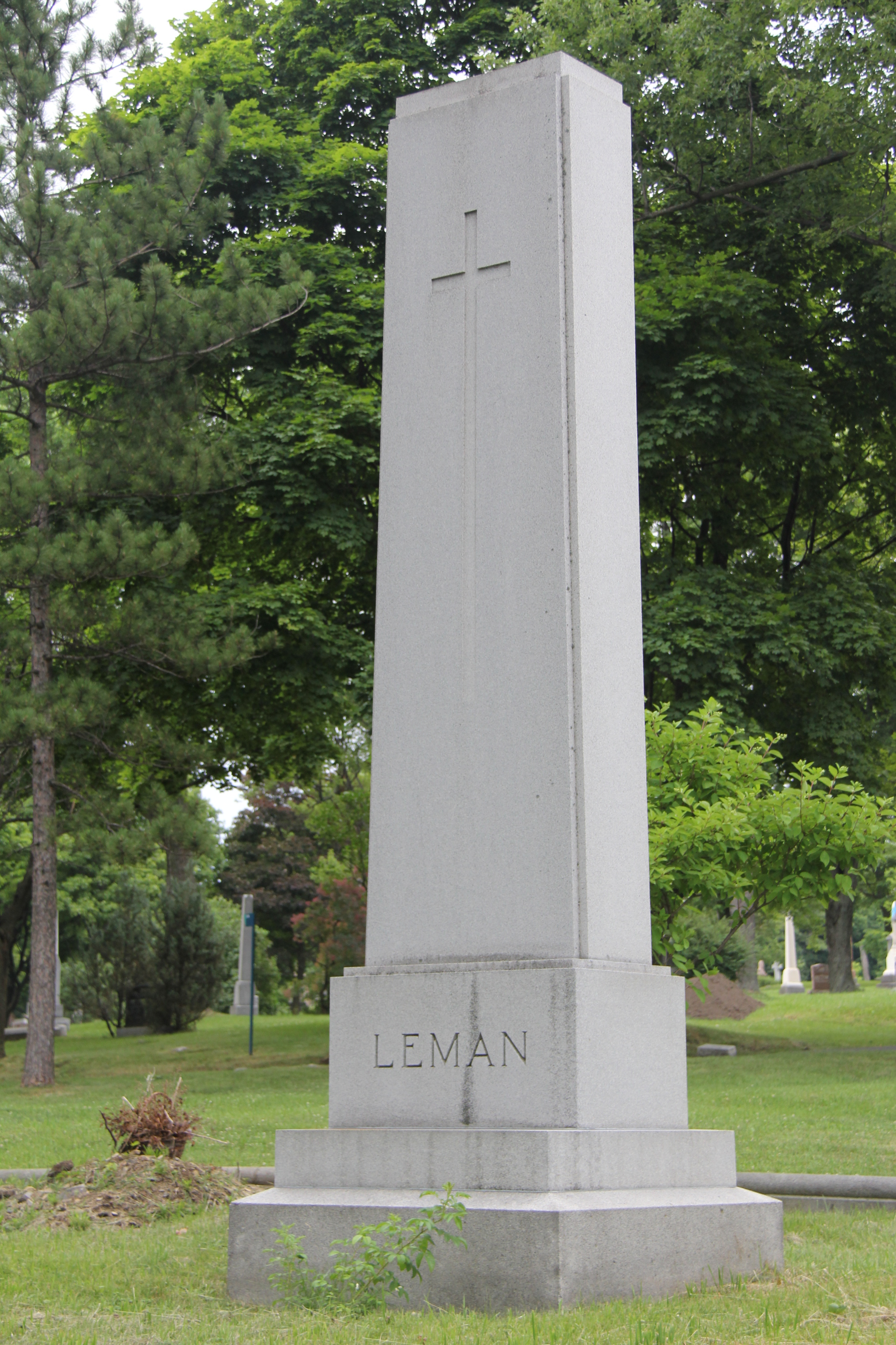 Beaudry Leman’s tombstone (1878-1951), Notre-Dame-des-Neiges Cemetery (C61), Montreal.